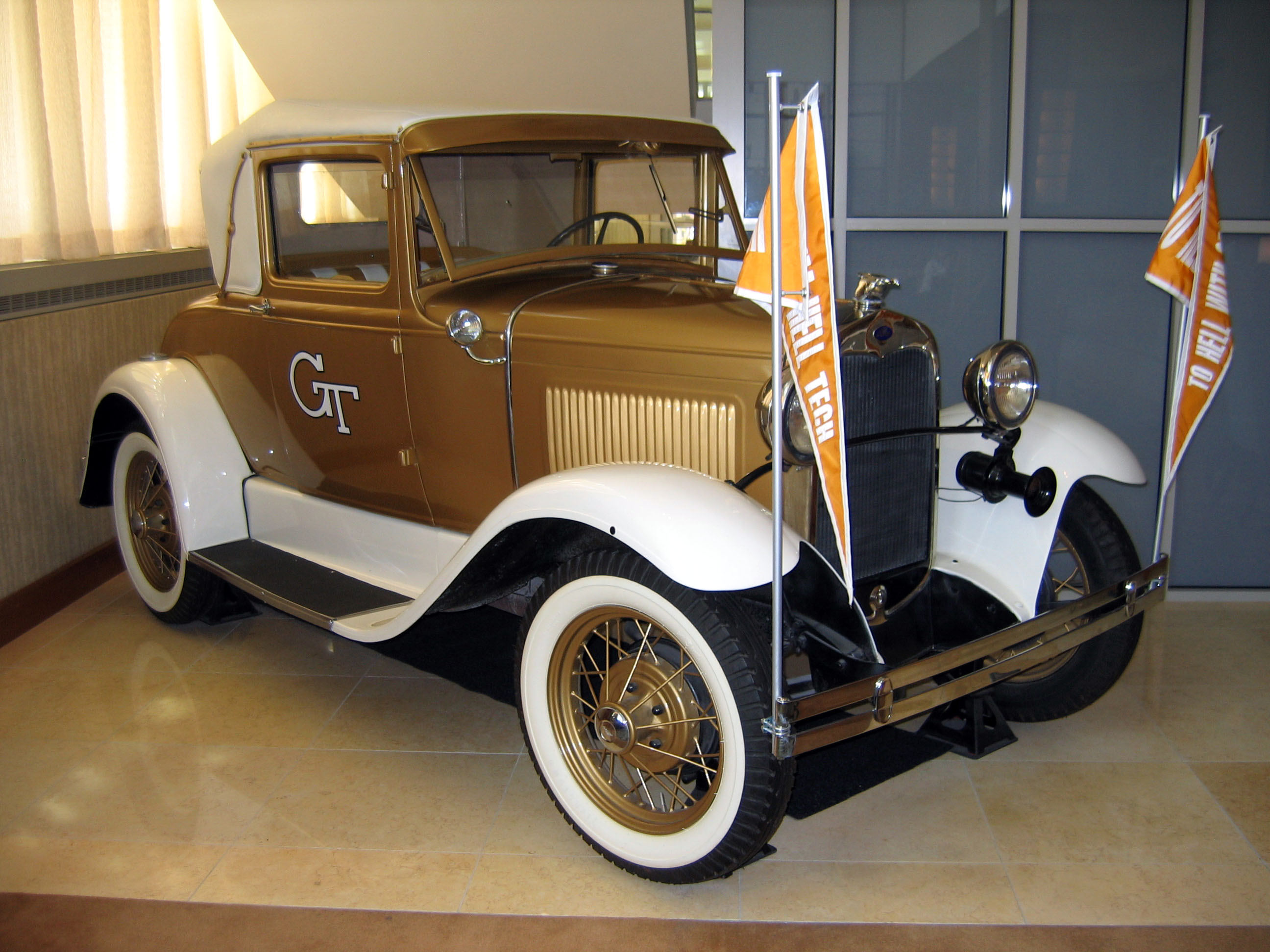 A "False Wreck": a replica of the true Ramblin' Wreck that is located in the Georgia Tech Hotel and Conference Center. Text from en-wiki: “There is a 1930 Ford Model A Sports Coupe shell in the Georgia Tech Hotel. This car has not worked since it has been on campus. The motor is incomplete and the front end lacks the Wreck's chrome stone guard. This is the only replica that is allowed to brandish flags similar to the real Wreck. Instead of having a rumble seat, this vehicle has a modified trunk space.”